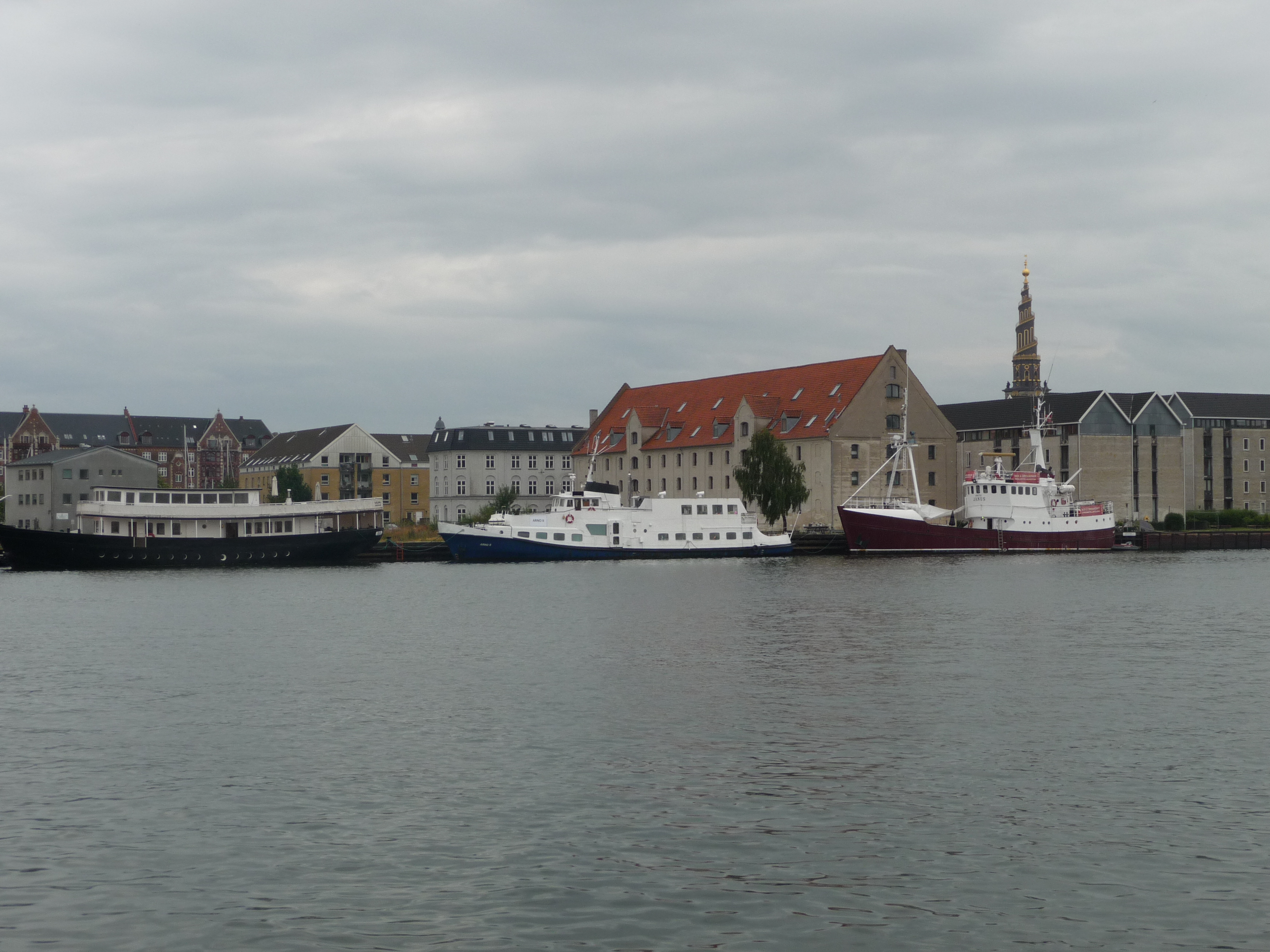 Wilders Pakhus at Wilders Plads in the Christianshavn neighbourhood of Copenhagen, Denmark